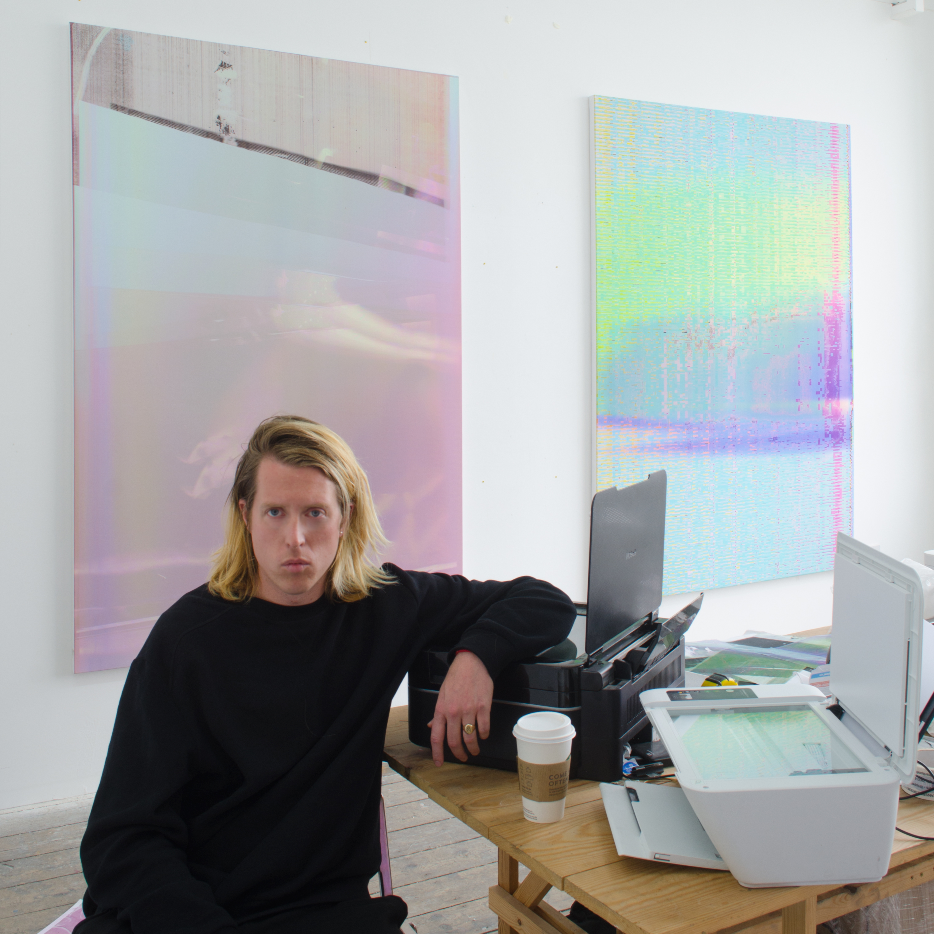 Paul Kneale Born in Canada, in 1986 Education Slade School of Fine Art, London Known for visual art and technology Notable work scanner paintings